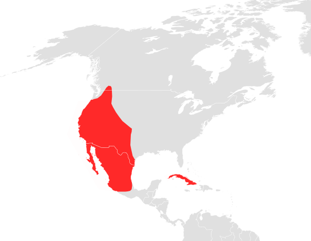 Distribution of Artibeus phaeotis